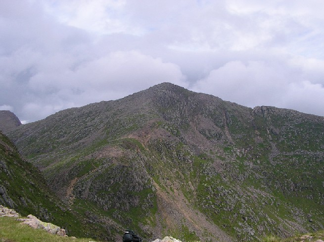 Ben Cruachan, seen from Meall Cunanail. Contains a pumped-storage hydroelectric power plant in an underground cavern. Taken by User:Grinner on the 2nd July, 2005.